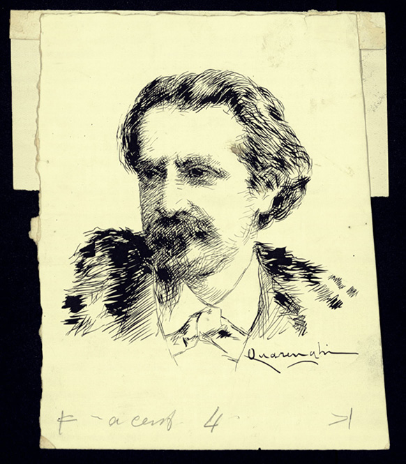 Portrait of Luigi Sessa, composer (1927-2001), before 1940.